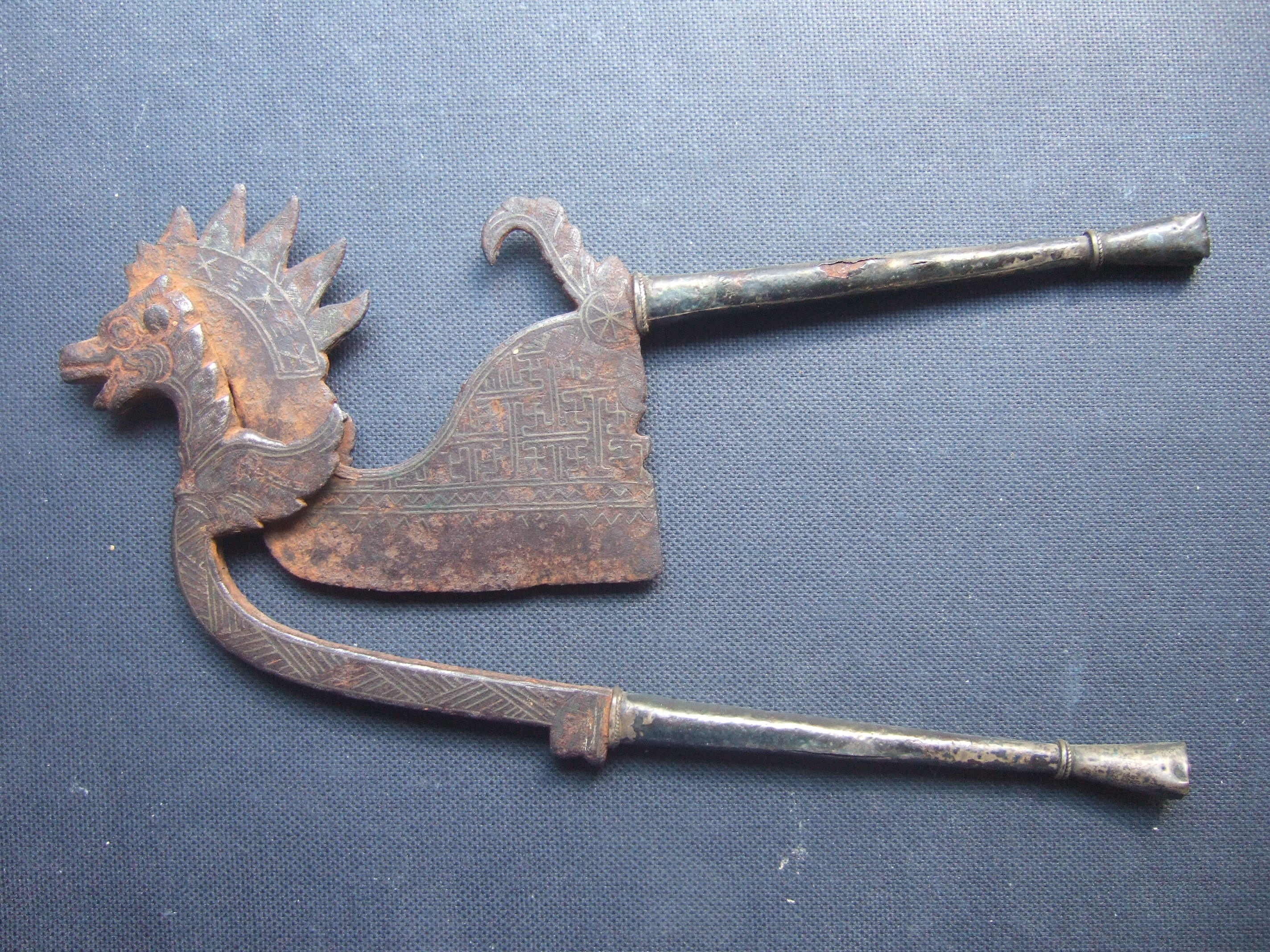 Betelnut-cutter from Indonesia